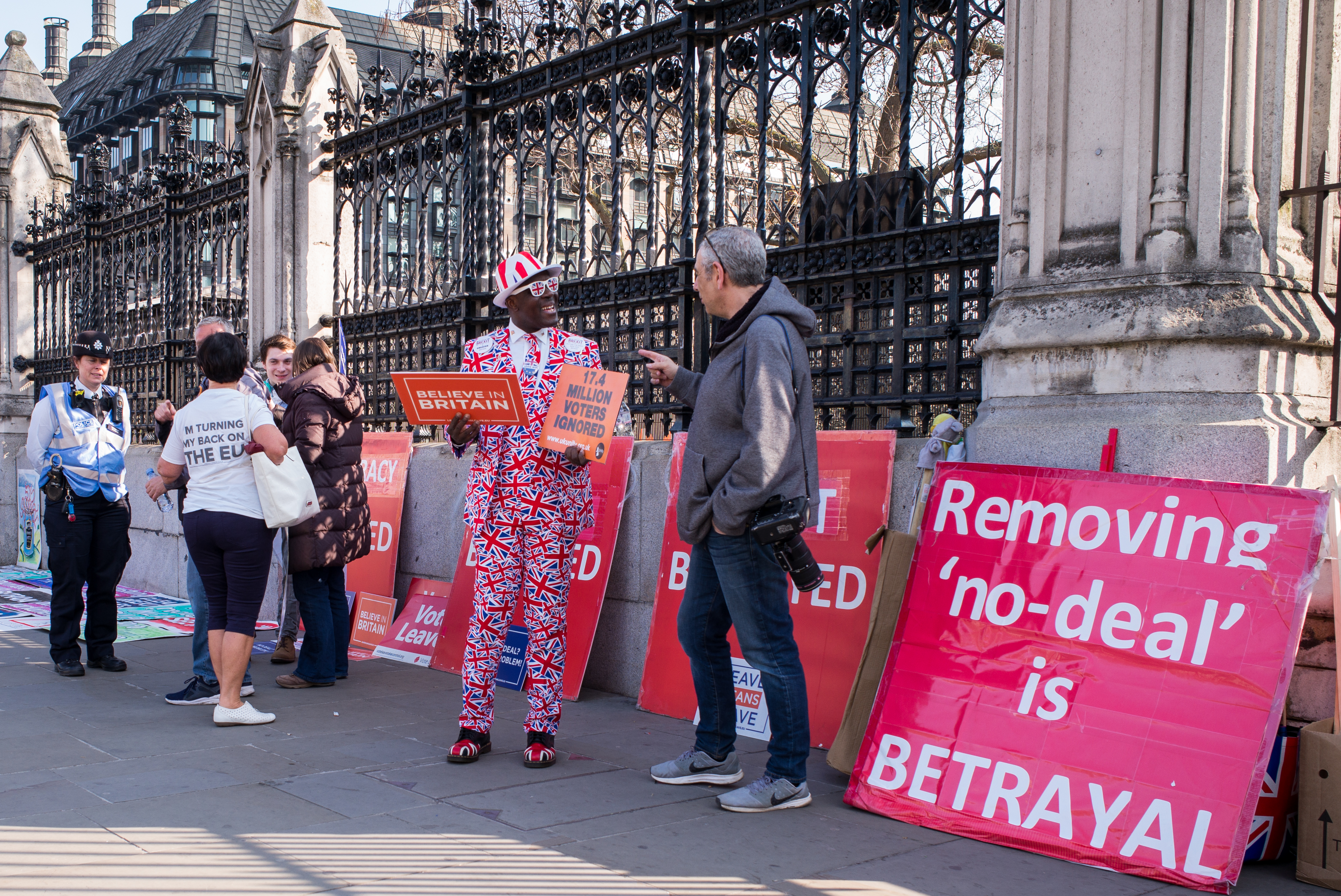 29 March 2019 at the UK Parliament